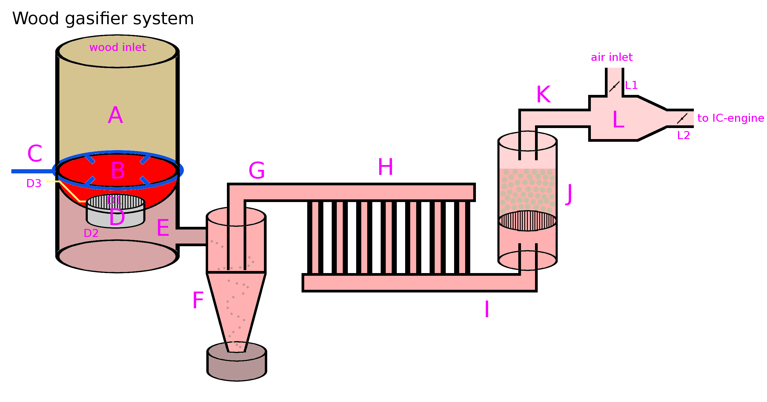 A schematic showing the wood gasifier built by Dick Strawbridge and Jem Stansfield for the show "Planet Mechanics". Parts: A: wood B: fire C: air inlet (air going to 4 nozzles) D: reduction zone; contains charcoal; smoke goes trough the accumulated charcoal and reacts with it. H2O and CO2 becomes H2 and CO D1: top grating (movable) D2: lower grating (not movable) D3: handle: used to stir up the wood to provide evenly high temperature over top grating E: smoke F: single-cyclone seperator (coarse filter) G: partially filtered smoke H: radiator (reduces heat of gas and hence condenses the gas, making it more flammable/potent) I: cooled, partially filtered smoke J: fine filter (consisting of clay balls on top of a grating) K: wood gas (= fully filtered, cooled smoke) L: air/gas mixer (replaces IC engine carburetor) L1: air inlet valve (operated via handle mounted to gear stick) L2: choke valve